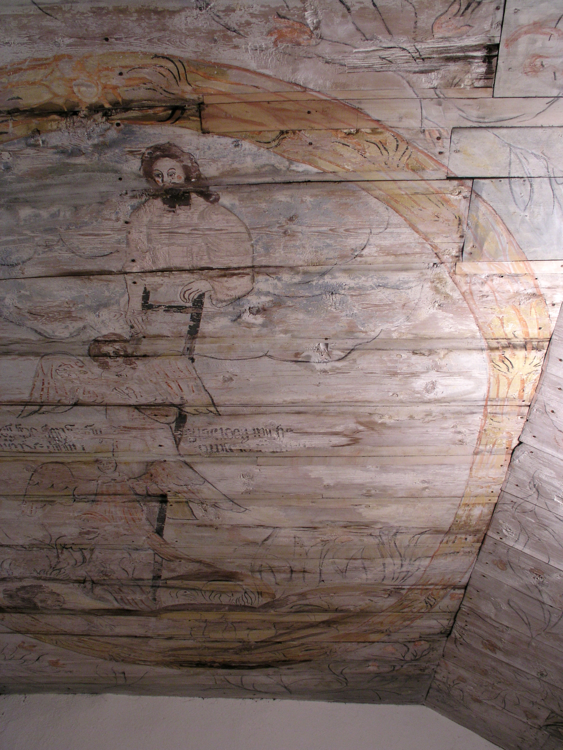 Jacob's dream, ceiling paintings in Östra Skrukebys church, diocese of Linköping, Sweden